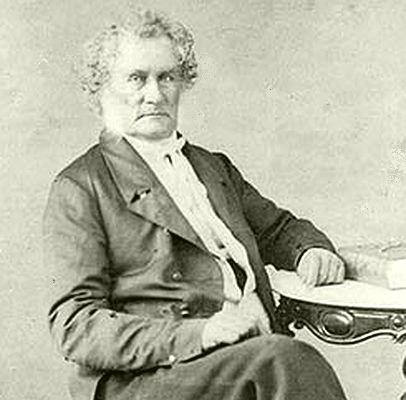 Photograph of Peter Force